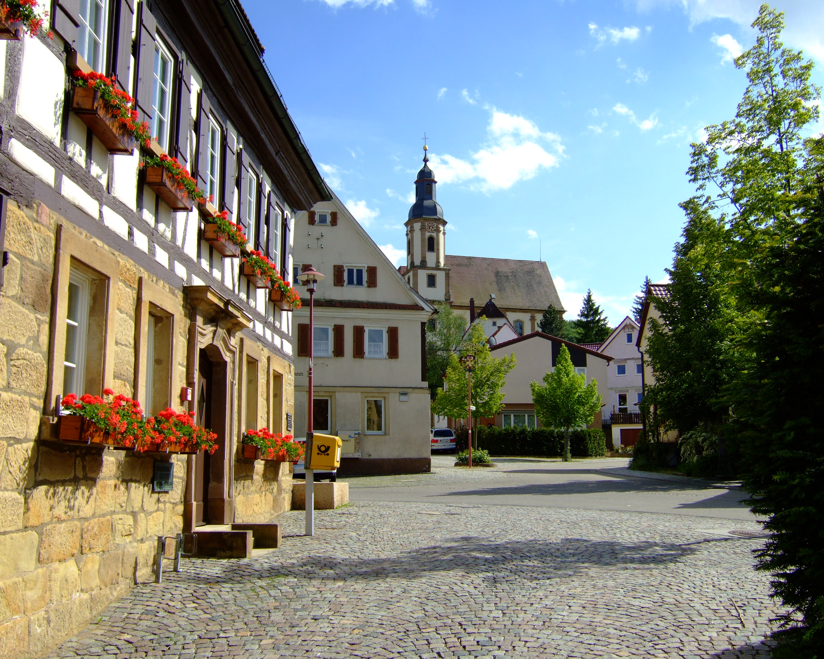 View from the guildhall to the Old Church "St. Remigius" with vicarage of the Village Neckarsulm-Dahenfeld (built: 1748)